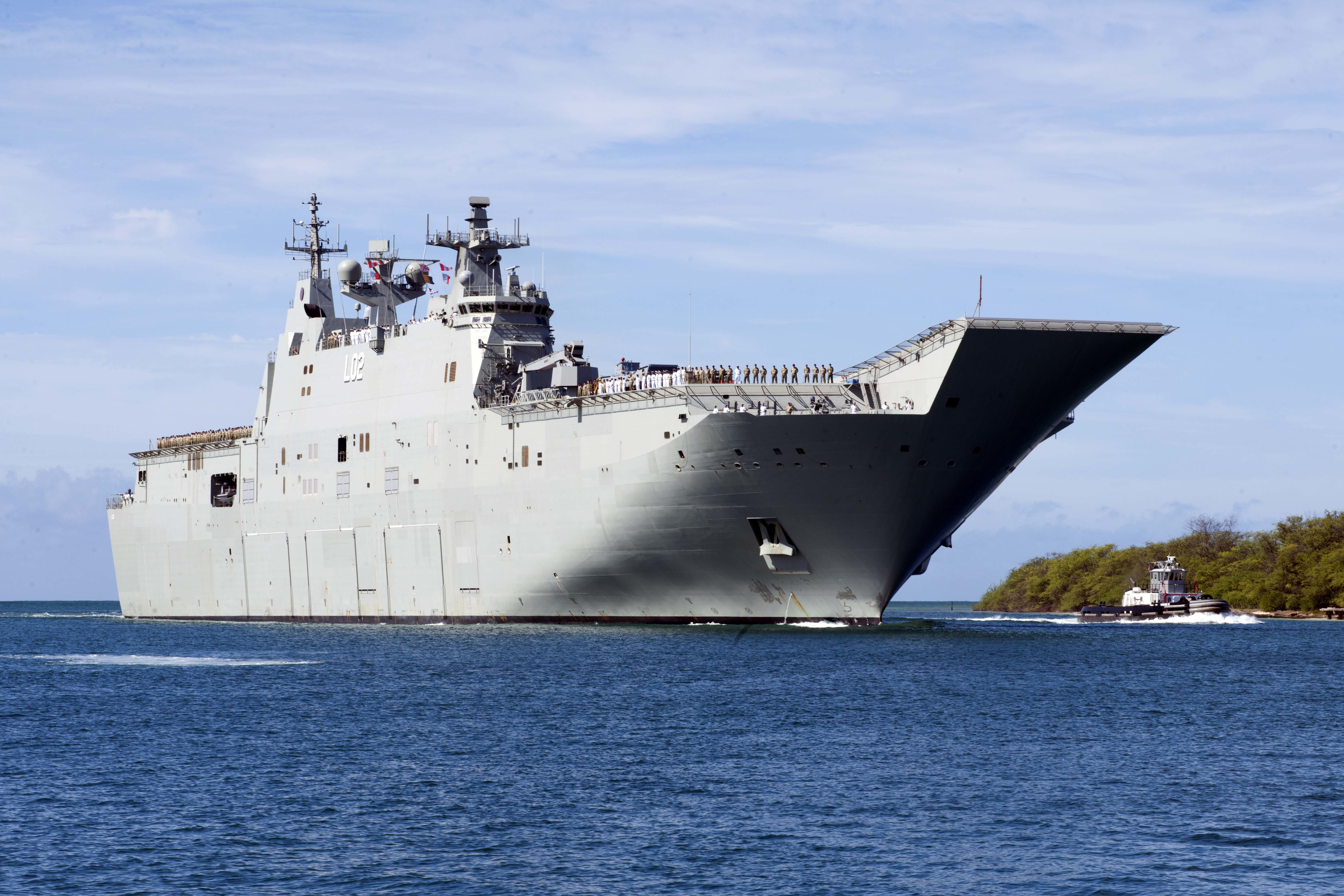 160628-N-ON468-159 PEARL HARBOR (JUNE 28, 2016) HMAS Canberra (L02), a Royal Australian Navy landing helicopter dock ship, arrives at Joint Base Pearl Harbor-Hickam for Rim of the Pacific 2016. Twenty-six nations, more than 40 ships and submarines, more than 200 aircraft and 25,000 personnel are participating in RIMPAC from June 30 to Aug. 4, in and around the Hawaiian Islands and Southern California. The world's largest international maritime exercise, RIMPAC provides a unique training opportunity that helps participants foster and sustain the cooperative relationships that are critical to ensuring the safety of sea lanes and security on the world's oceans. RIMPAC 2016 is the 25th exercise in the series that began in 1971. (U.S. Navy Photo By Mass Communication Specialist 2nd Class Jeff Troutman/RELEASED)